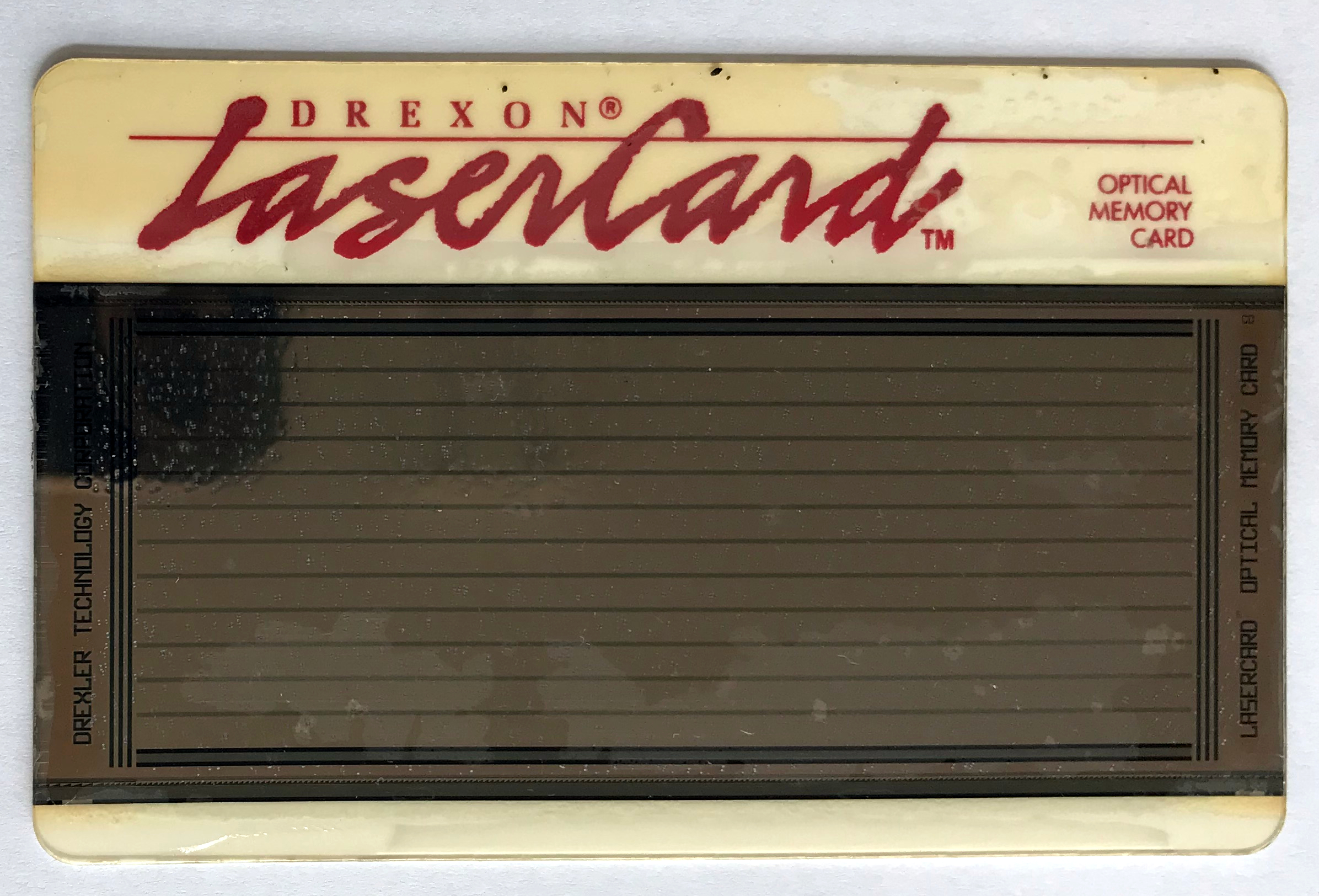 Laser Card made by Drexler technology Corporation. Japanese technological explanation material．